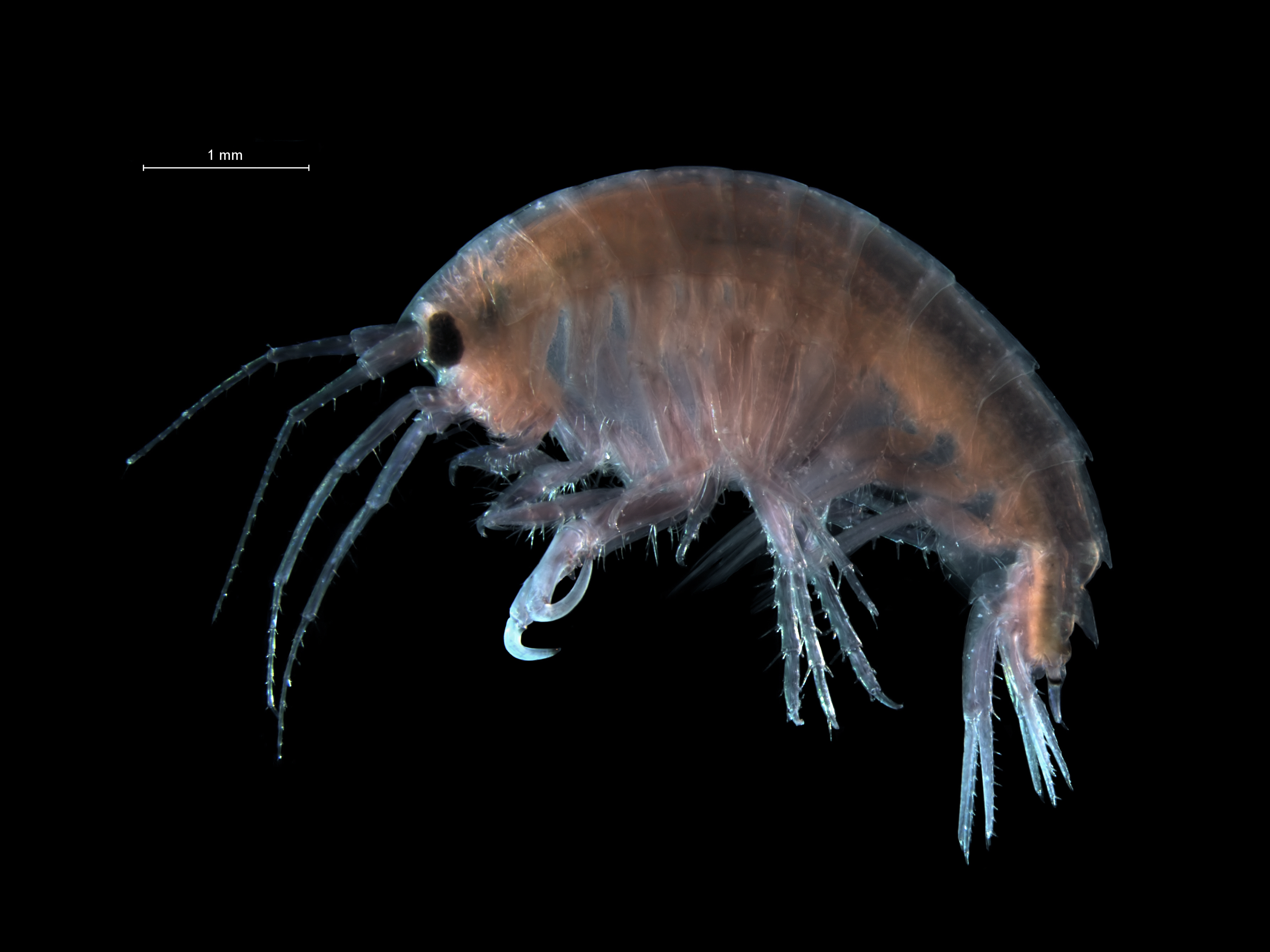 Benthic amphipod, taken with Leica DFC 490 camera mounted on a Leica M205C binocular microscope. Pereiopod 3 is extremely large with a long and robust merus, a short carpus and a strong and slightly curved propodus with an enormous falciform dactylus. The 12 segmented flagellum is one of the features distinguishing this species from the similar Atylus swammerdami. Collected in 2010 on the S2 dredge disposal site off Zeebrugge in the Belgian part of the North Sea 2010.Length = ~4.5 mmFocus stacking of 35 pictures.